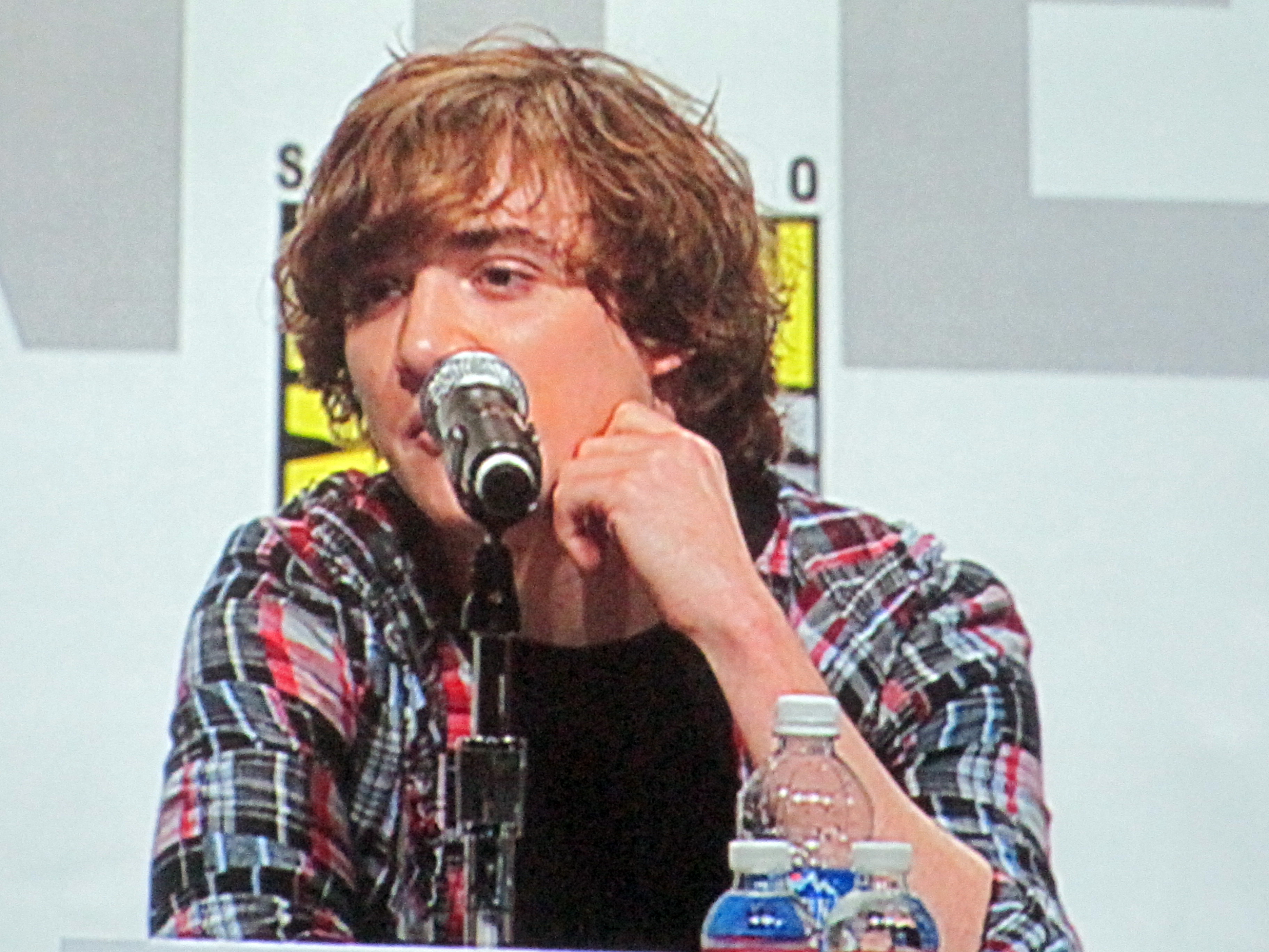 Actor Kyle Gallner participating in the panel for A Nightmare on Elm Street at WonderCon 2010.